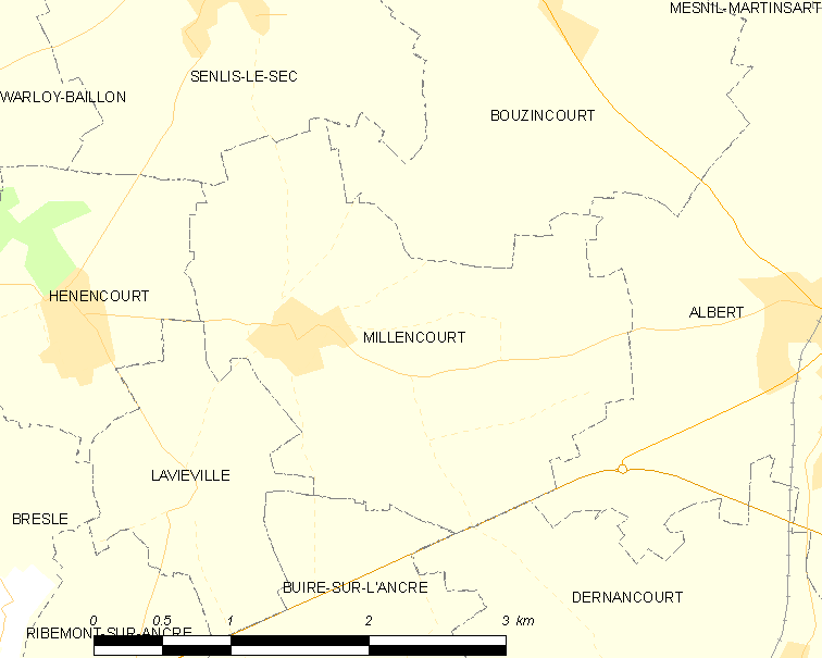 Map of French municipality Millencourt